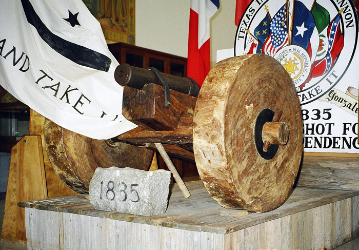 The "come and take it" cannon of the Battle of Gonzales of the Texas Revolution (The cannon is the real thing, the carriage a reproduction) on display at the Gonzales Memorial Museum, Gonzales, Texas, United States.